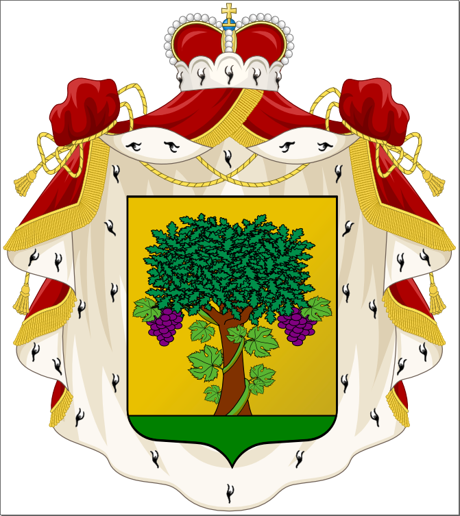 Coat of arms of the Pavlenishvili family